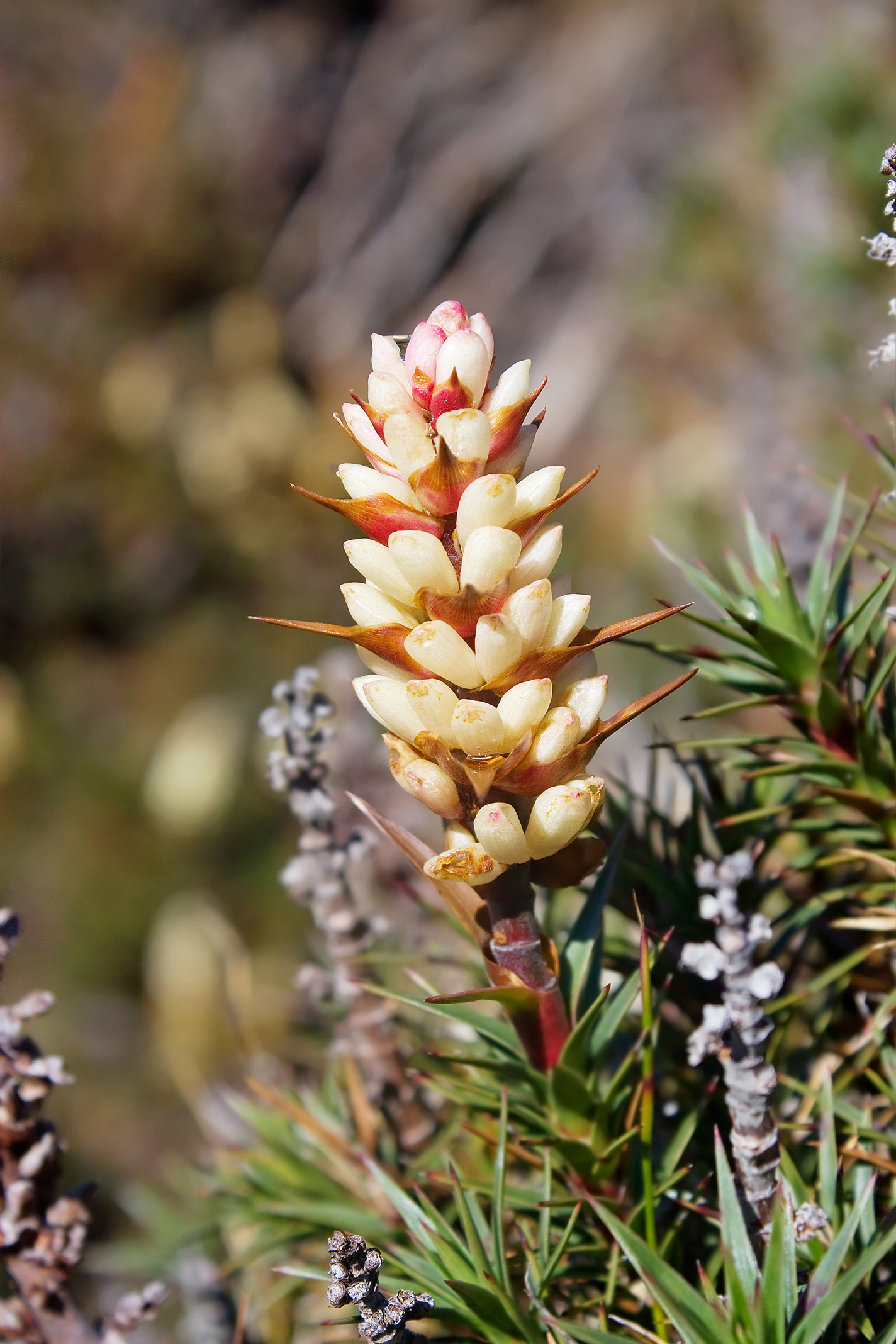 (Richea Scoparia) between Waterfall Valley and Lake Holmes, Cradle Mountain - Lake St Clair National Park, Tasmania Australia